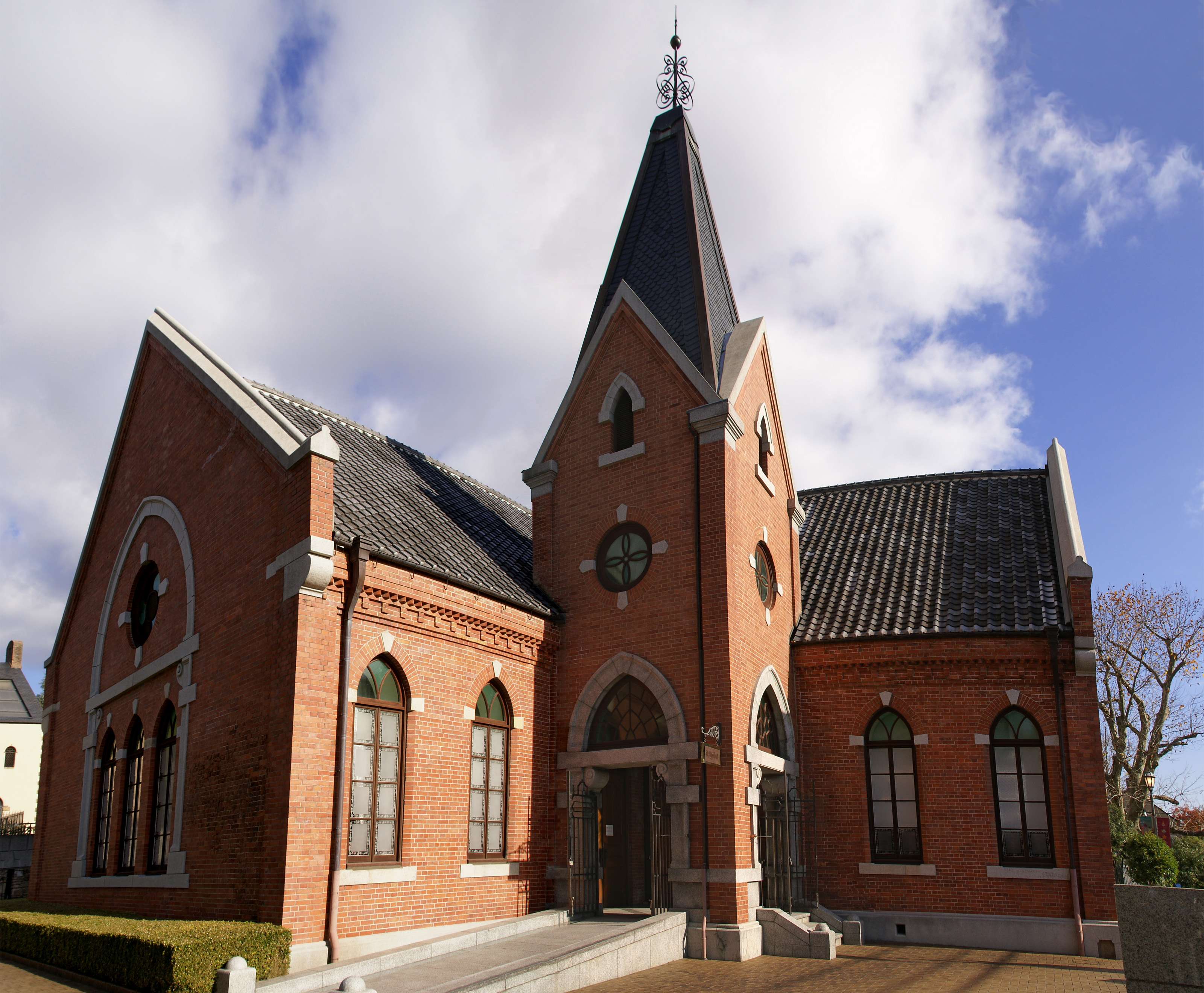 Kobe City Museum of Literature in Kobe, Hyogo, Japan